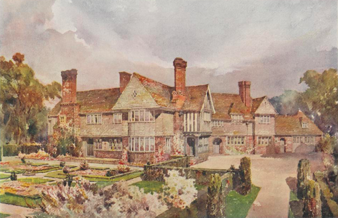 House at Moseley, Worcestershire (Ashley Lodge, 1 Colmore Crescent Moseley), by Owen P. Parsons. From the Studio Yearbook of Decorative Art 1916